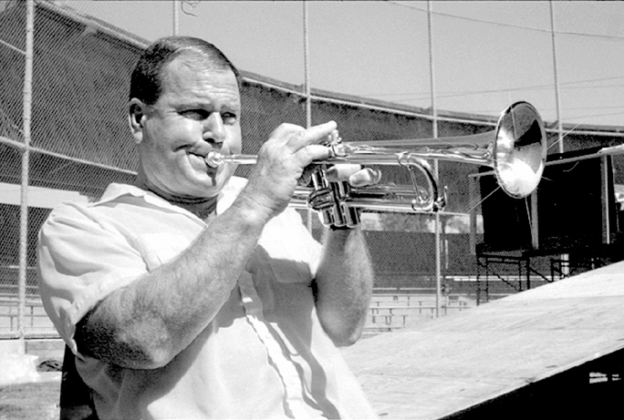 Jack Sheldon at Palo Alto CA Jazz Festival 9/26/87. Photo by Brian McMillen /